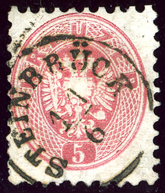 Austrian KK 5 kreuzer stamp, issue 1864, cancelled STEINBRÜCK, Styria province, now Zidani Most (Slovenia).